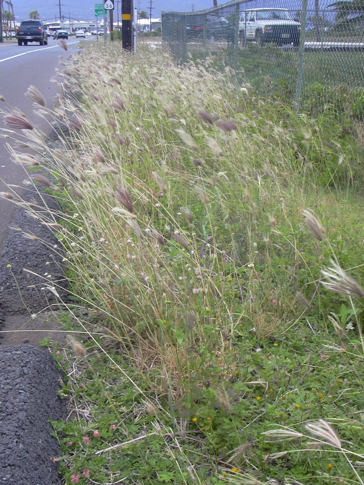 Chloris barbata (habit). Location: Maui, Kahului